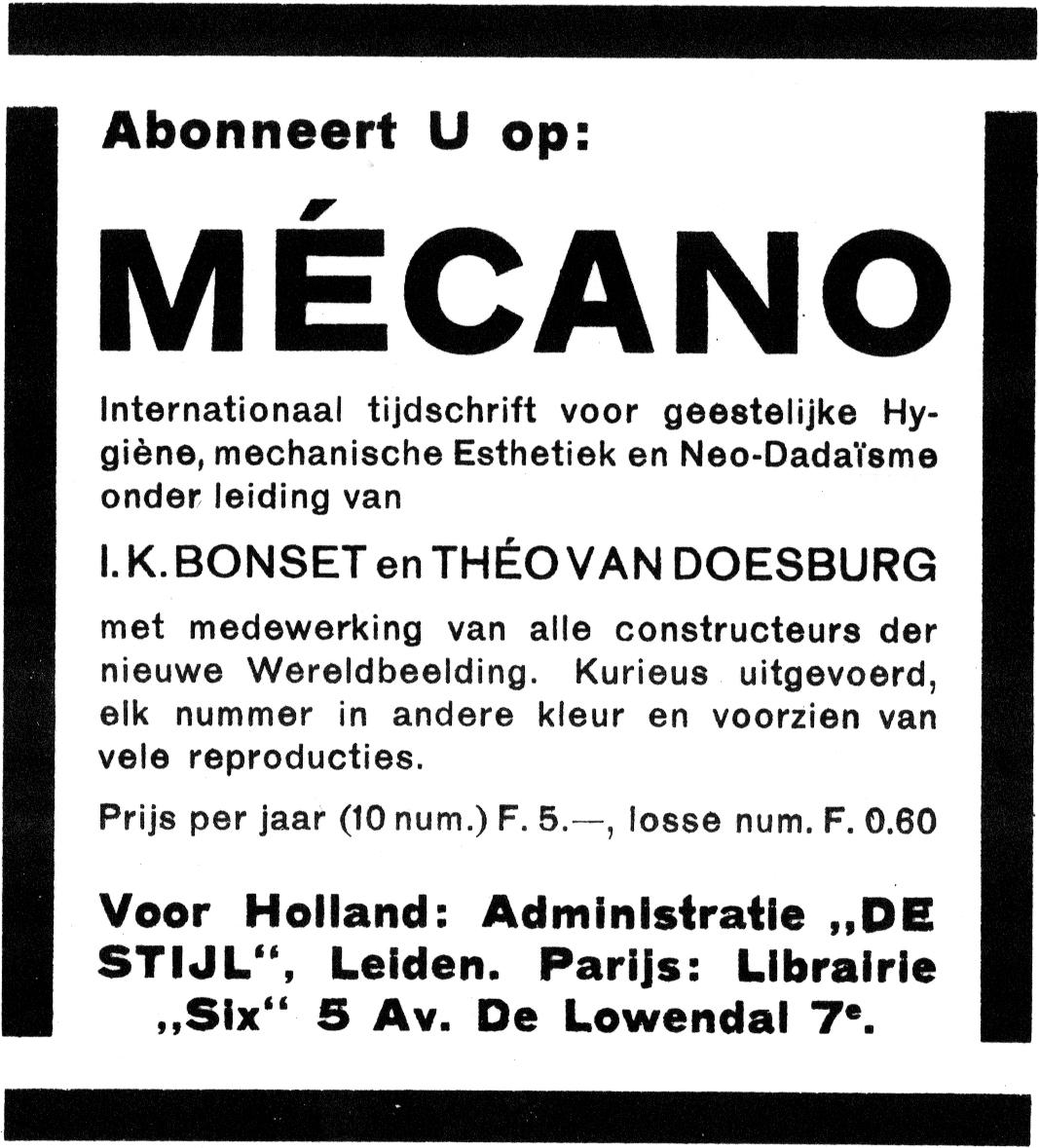 Advertisement for magazine Mécano. Published in De Stijl, 5th year, number 1 (january 1922).